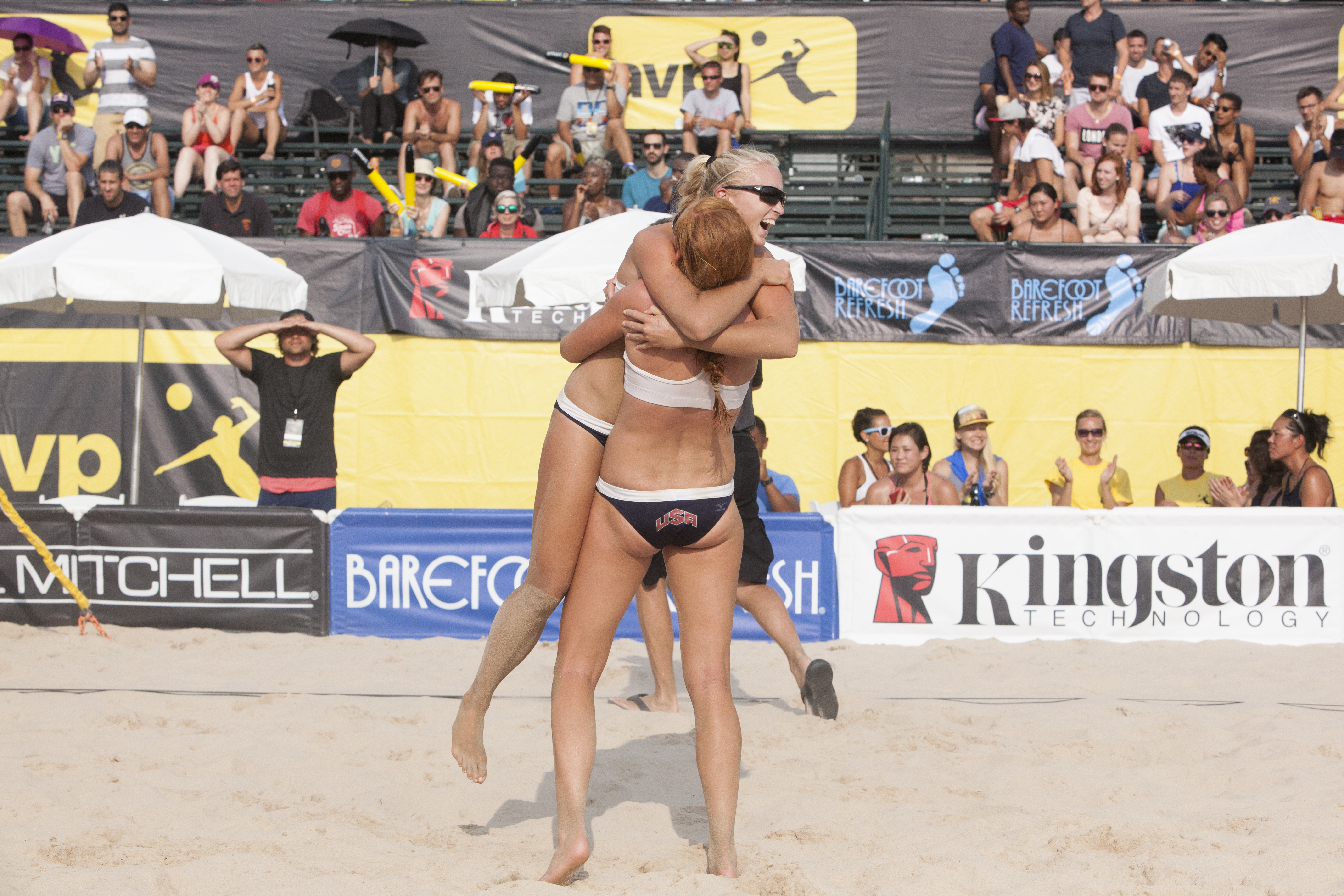 Sara Hughes and Kelly Claes celebrate after defeating April Ross and Jennifer Fopma to reach the AVP New York Open semi-finals on July 18, 2015.